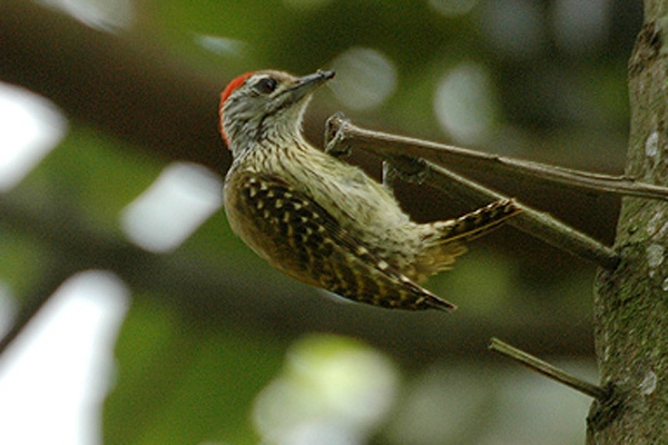 A Cardinal Woodpecker in Uganda. Note the unbarred mantle of this race, which ranges from e Zaire to Uganda, the Ethiopian highlands, w & c Kenya, Rwanda and nw Tanzania.